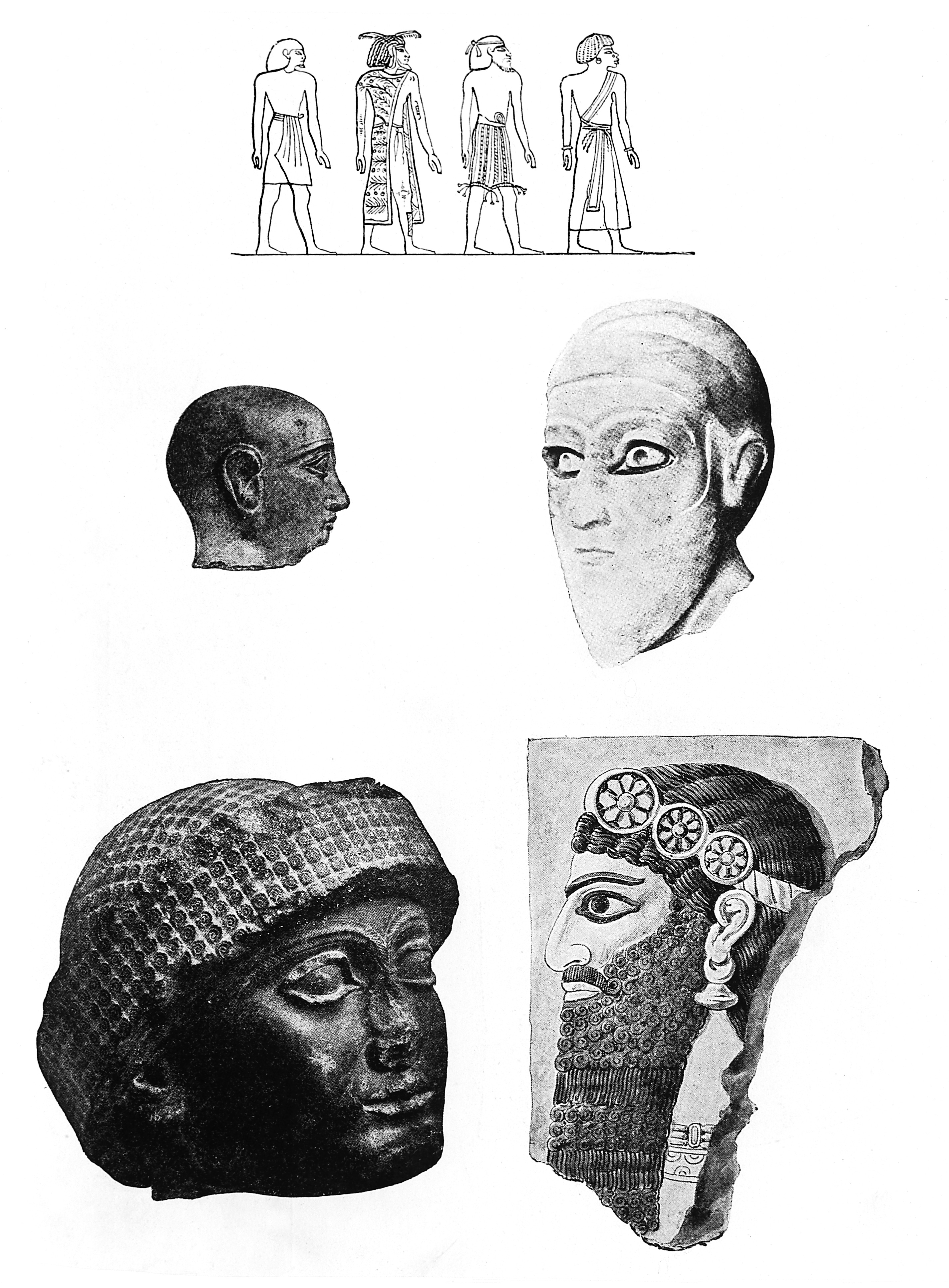 Physical Anthropology of Semites and Sumerians. Sumerian types. Jastrow. Wellcome Images Keywords: Anthropology